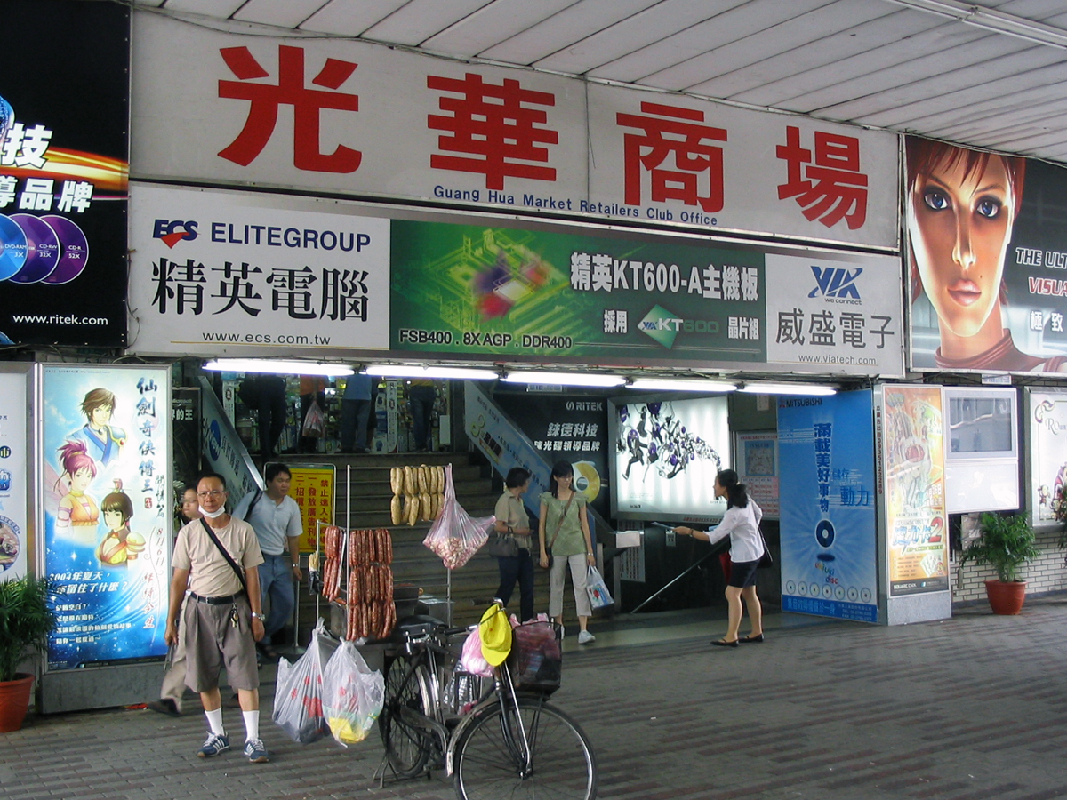 Non-existed Guang Hua Computer Market, formerly located under Guang-hua Bridge.中文（台灣）: 現已拆除的光華橋下舊光華商場，入口正上方懸掛精英電腦與威盛電子廣告招牌。